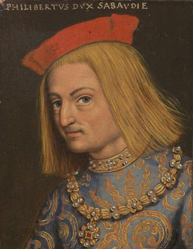 Philibert II of Savoy